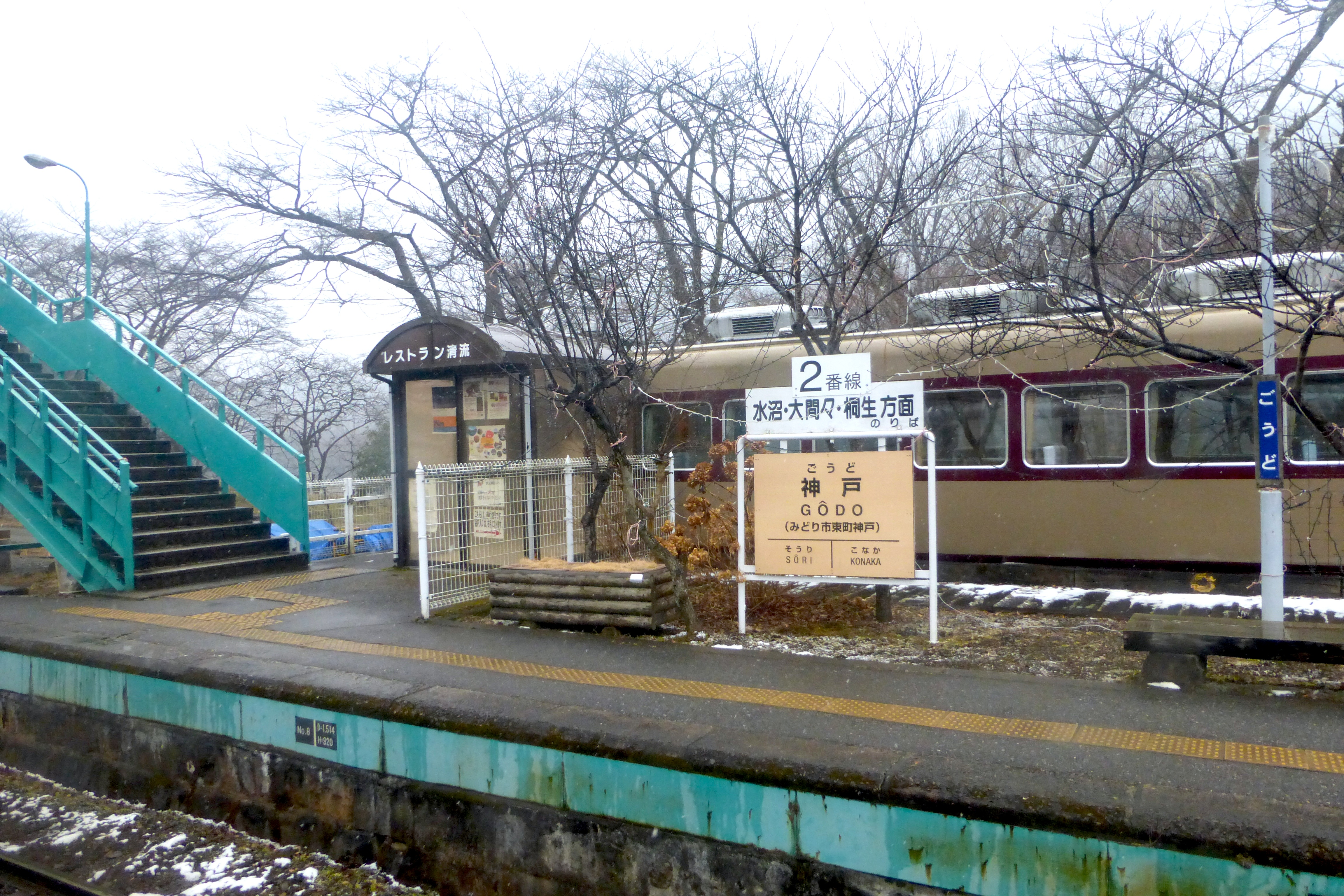 Gōdo Station (神戸駅 Gōdo-eki) platform and accompanying restaurant, snowy/rainy day.